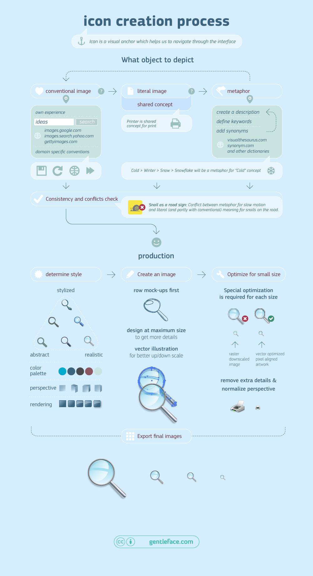 Computer icon design process scheme